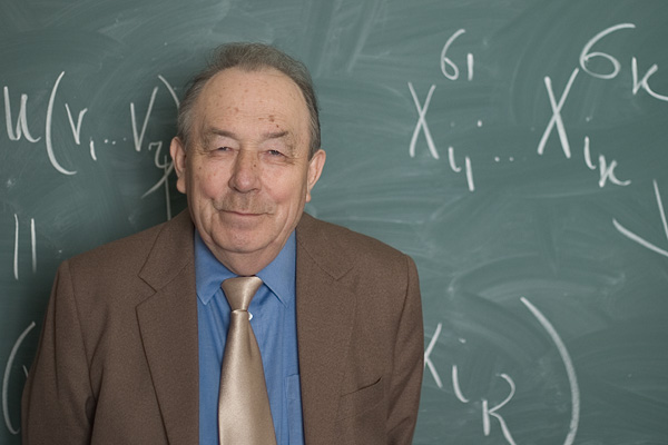 Yuri Zhuravlev